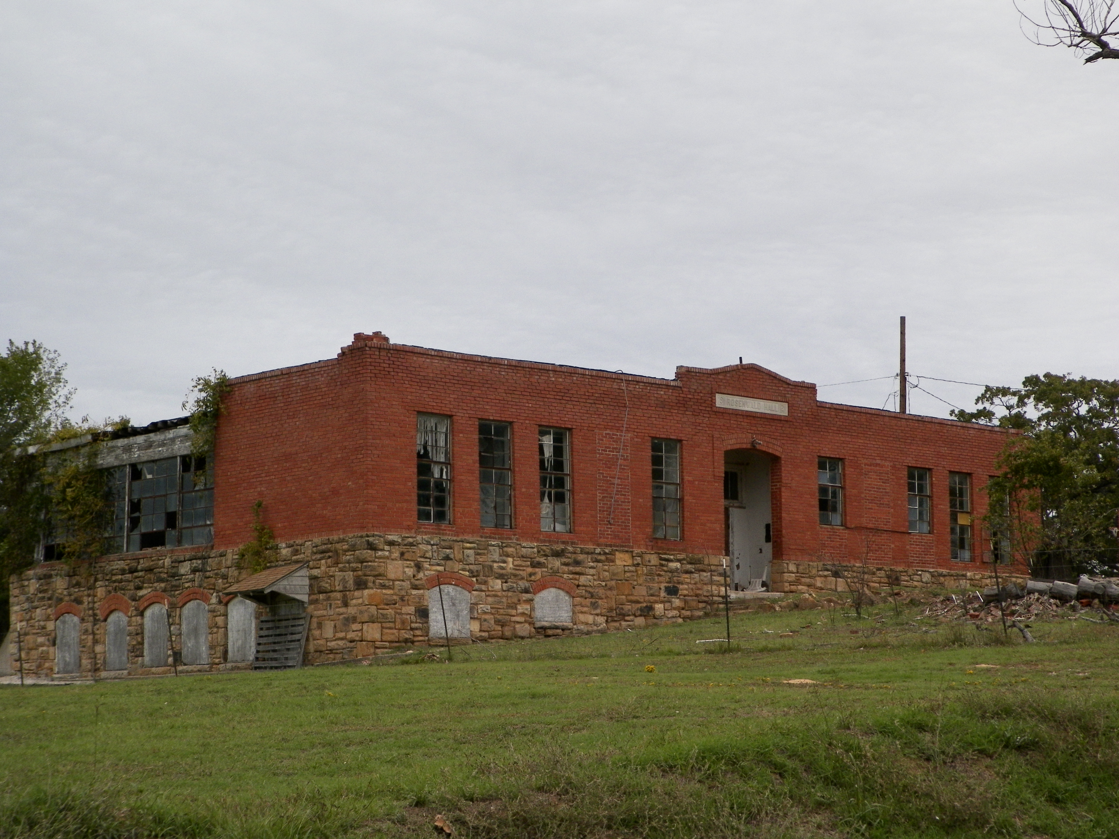 The Lima Rosenwald School, as it appeared in October, 2012. It is the most prominent structure in the All Black Town of Lima, Oklahoma